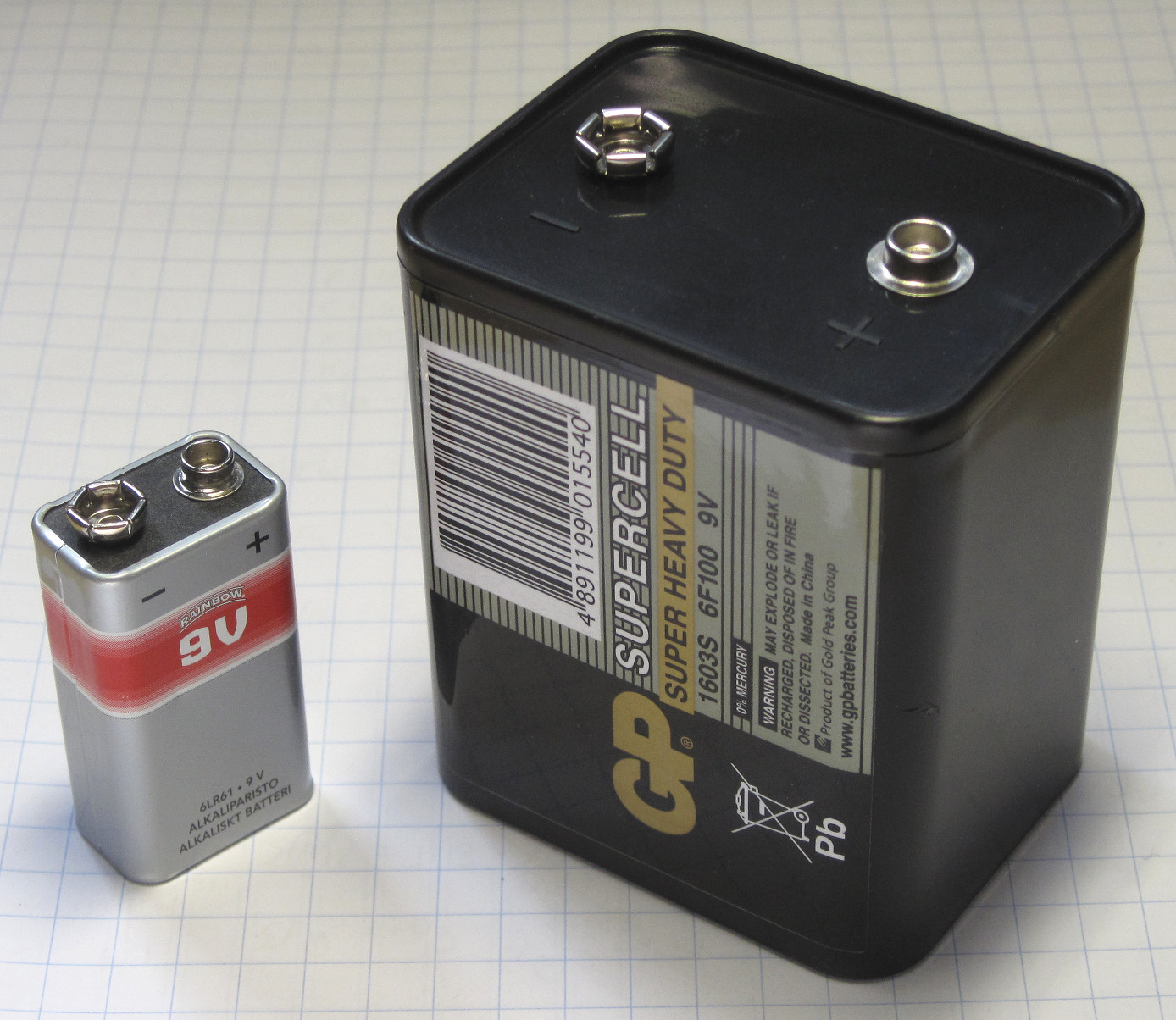 A side by side comparison of a PP9 battery and the more common PP3 type battery. This battery type was 9 volts and had 2 snap connectors. They were spaced 35.0 mm apart. It is a GP version and as such is slightly smaller then a "standardised" PP9.